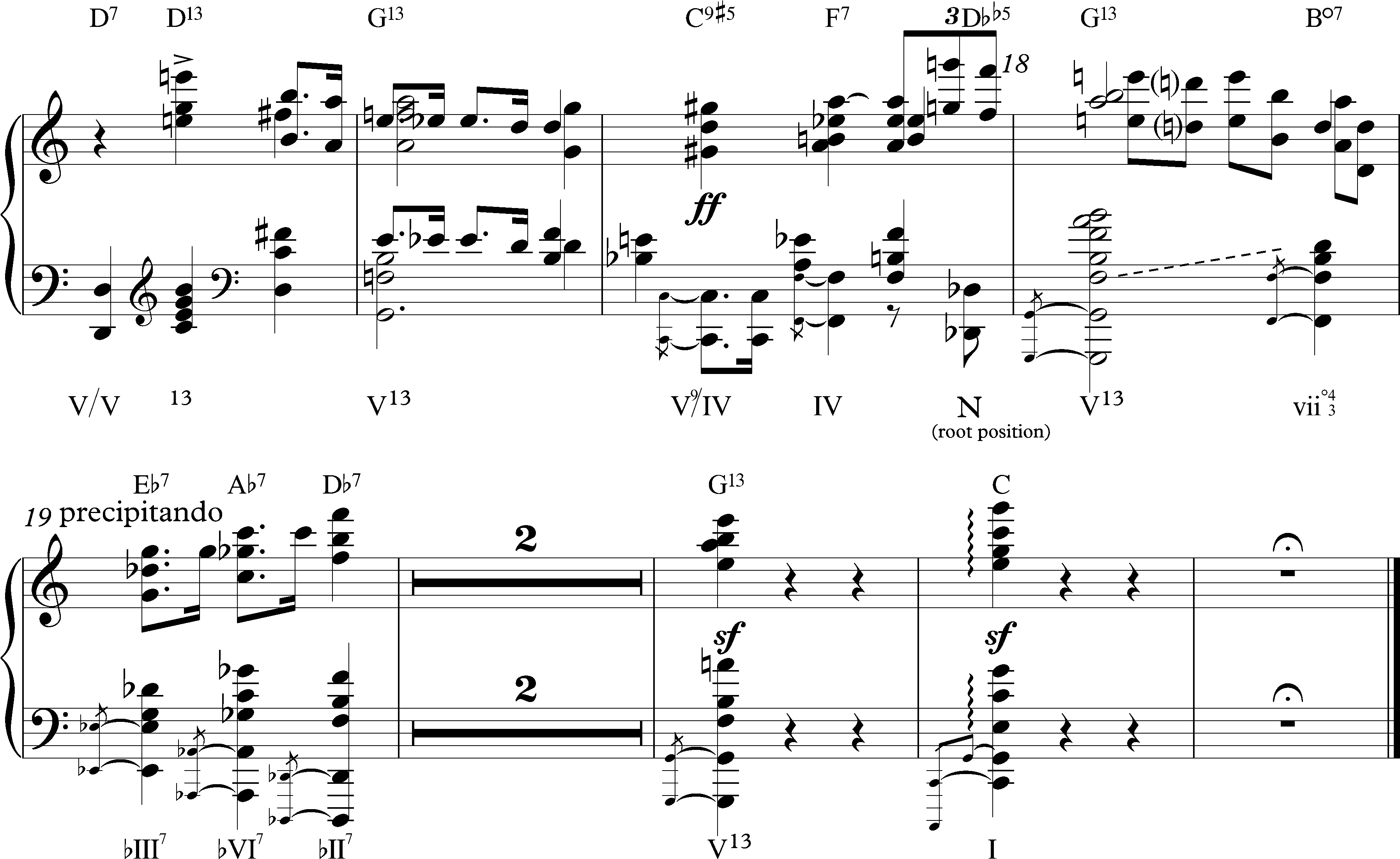 Chromaticism from borrowed chords and extended chords from the end of Alexander Scriabin's Preludes, Op. 48, No. 4, mm. 15-24.